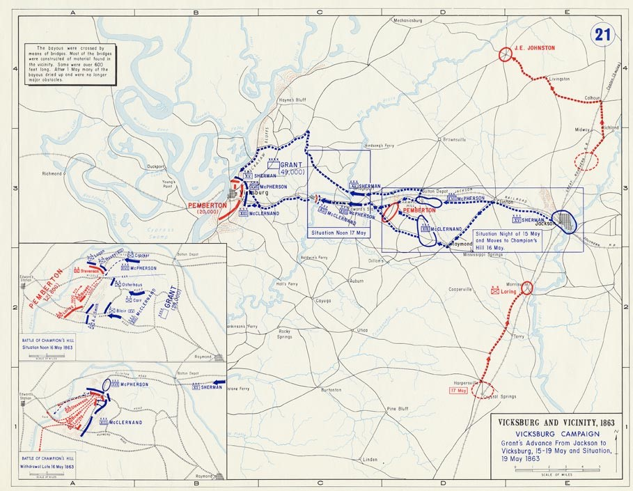 Vicksburg Campaign - Grant's Advance and Battle of Champion's Hill